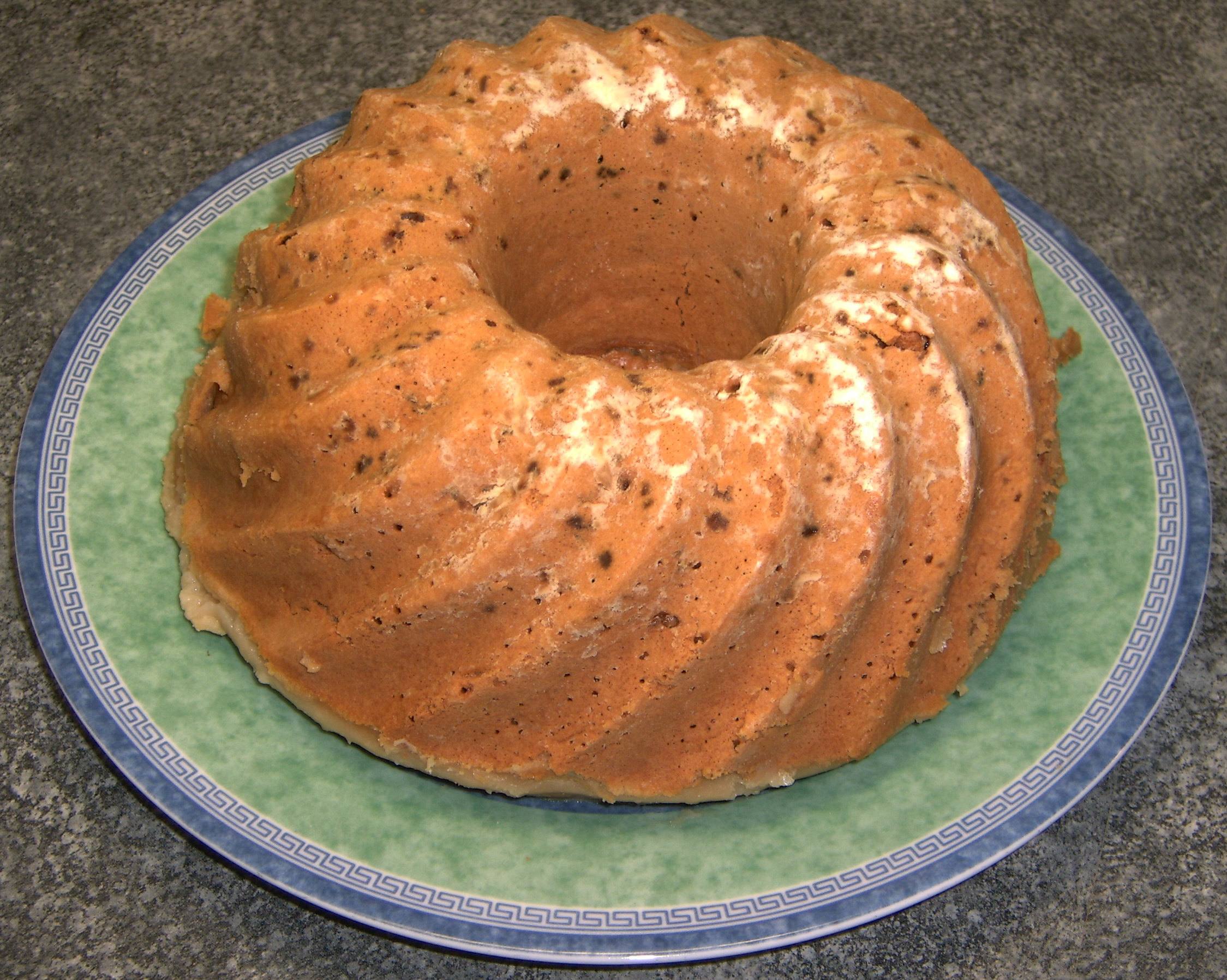 Dutch food from Groningen, named Poffert. Originally uploaded by Dutch User:IByte 25 jan 2006. Picture taken by User:IByte On Wikipedia uploaded as 'Own work, all rights released (Public Domain)'